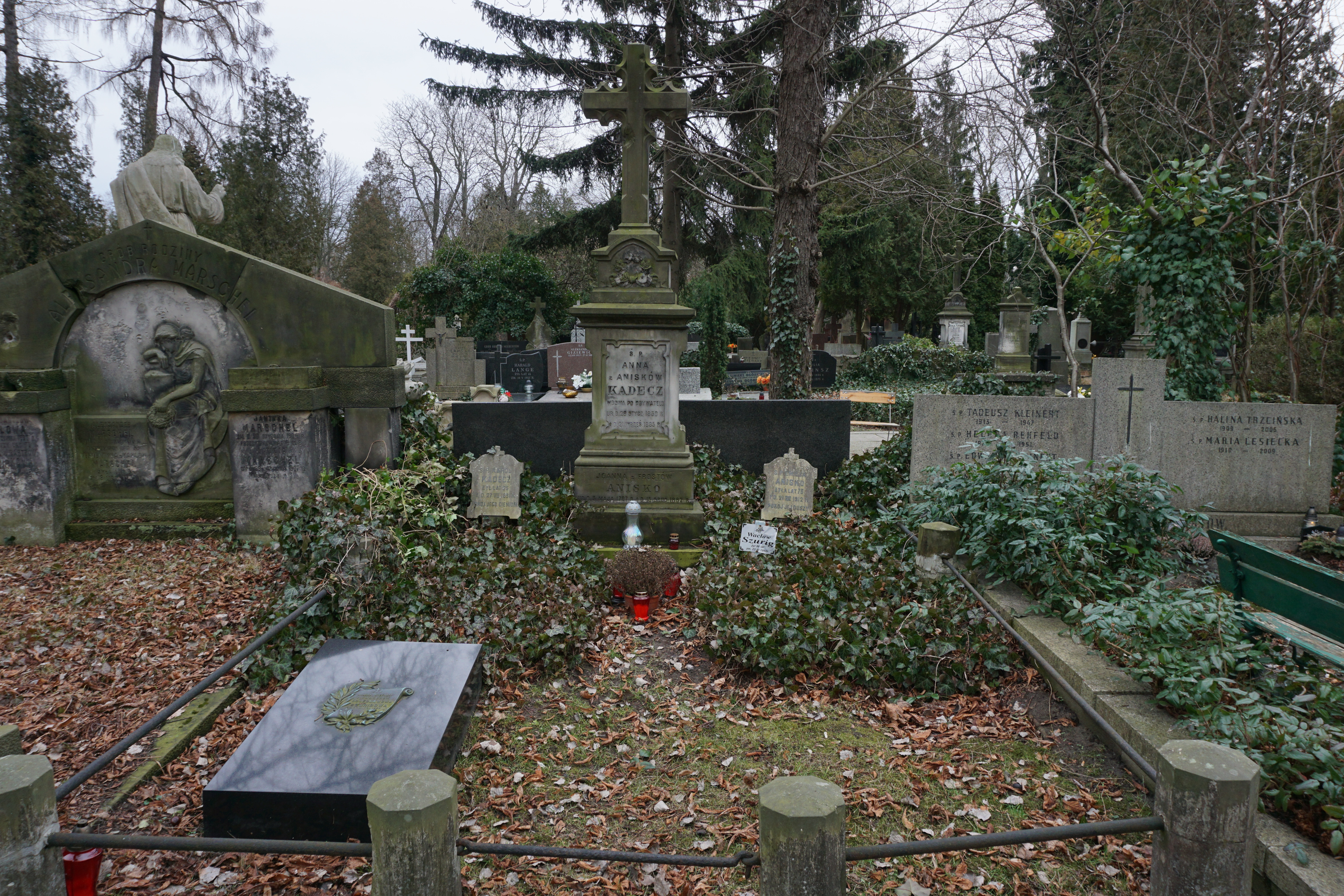 The grave of Wacław Szuring at the Evangelical-Augsburg Cemetery in Warsaw (avenue 11, grave 34)